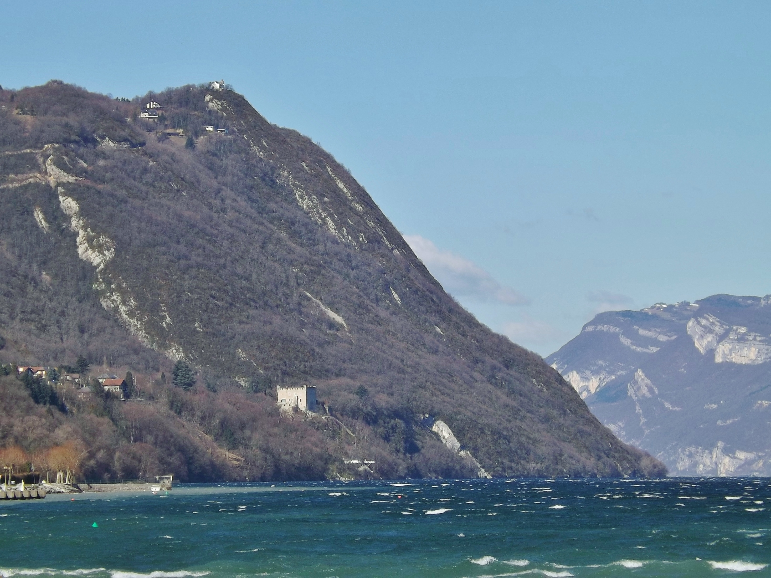 Sight of the château de Bourdeau castle and the choppy waters of the lac du Bourget lake during a windy day, in Savoie, France.